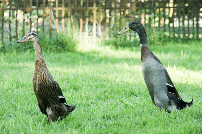 Indian Runner Duck